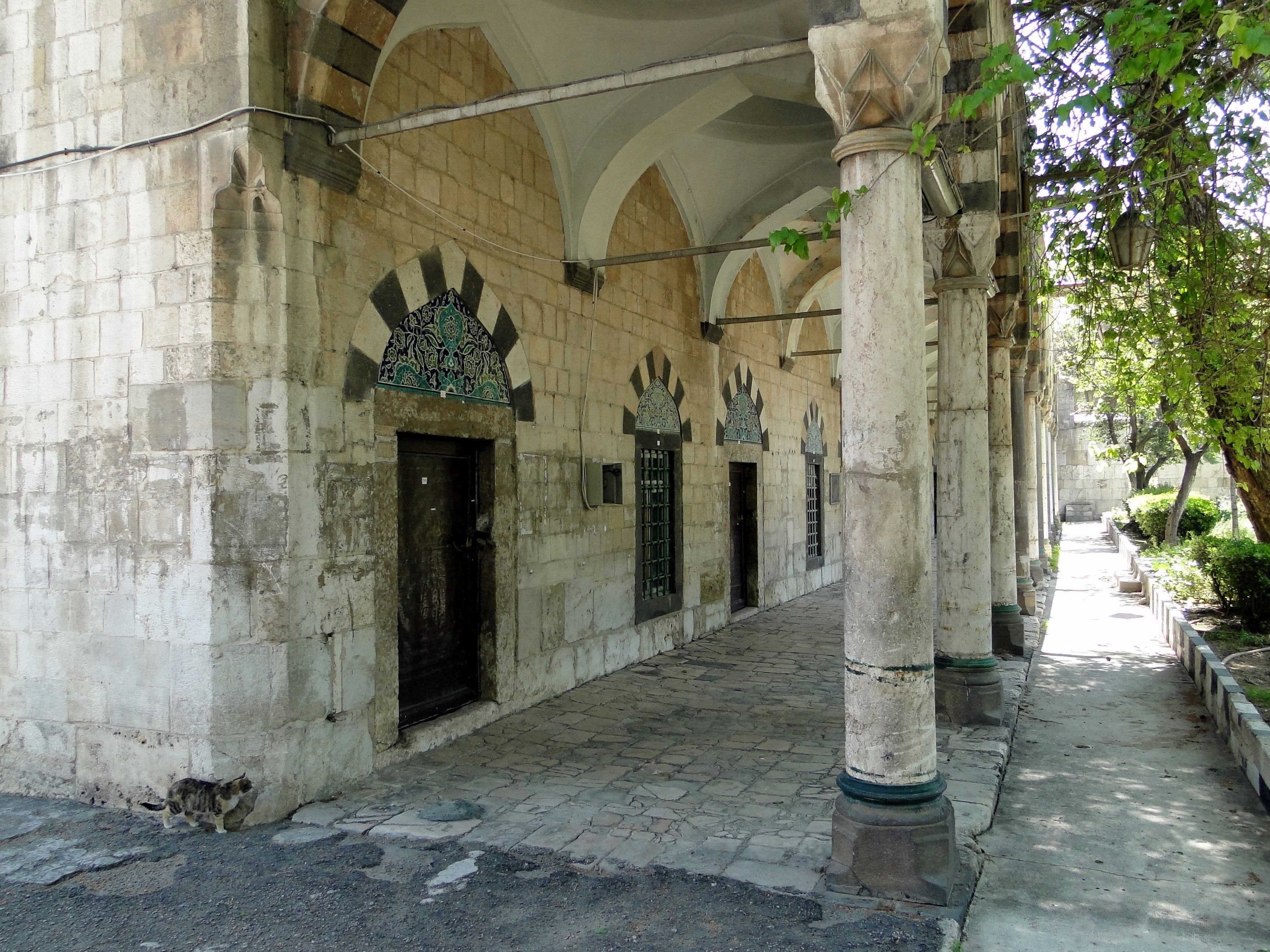 Arcaded cells at the Takiyya as-Süleimaniyya complex in Damascus, Syria